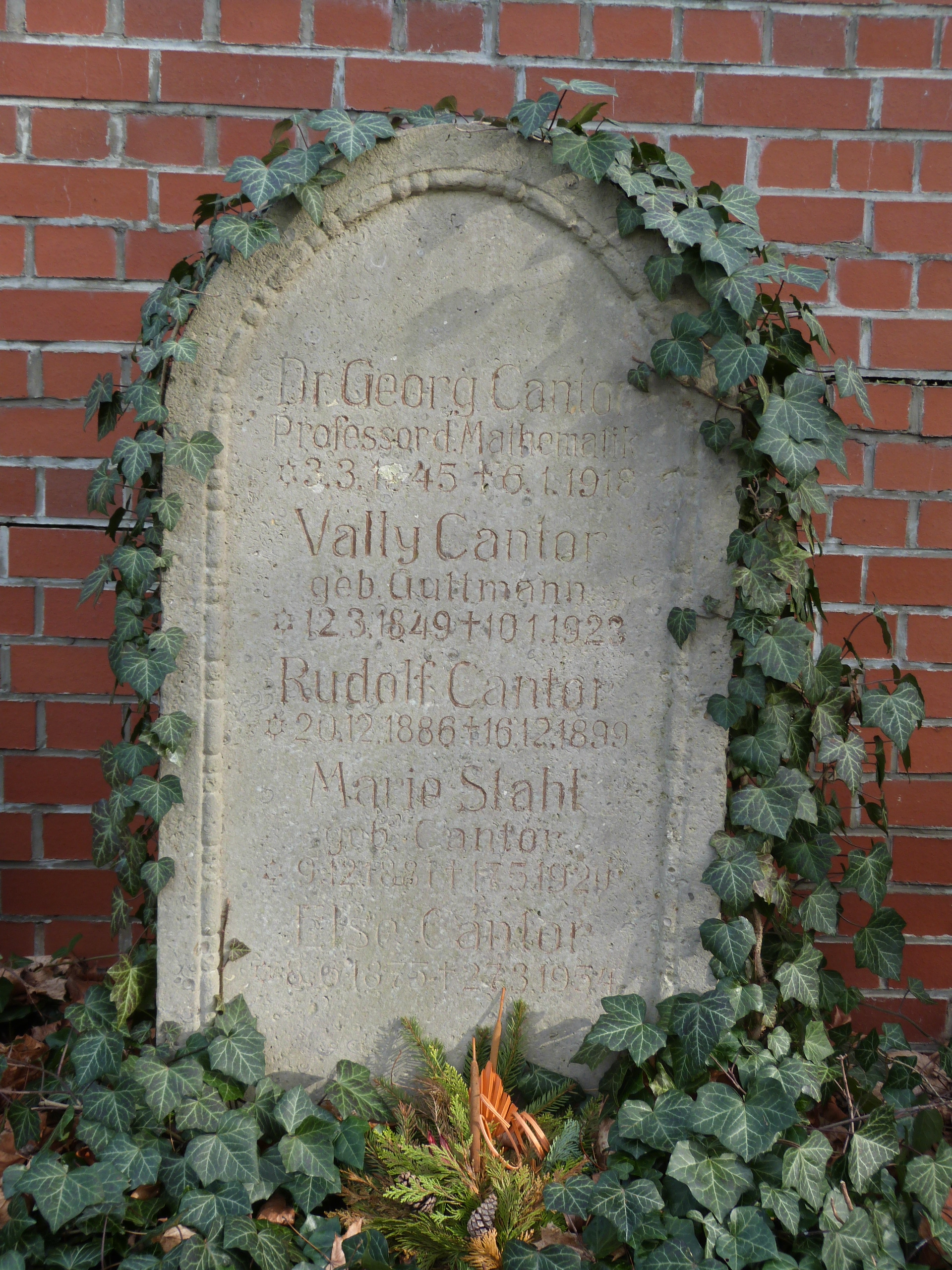 Cemetery Giebichenstein, grave stone for the mathematician Georg Cantor, in Halle (Saale)